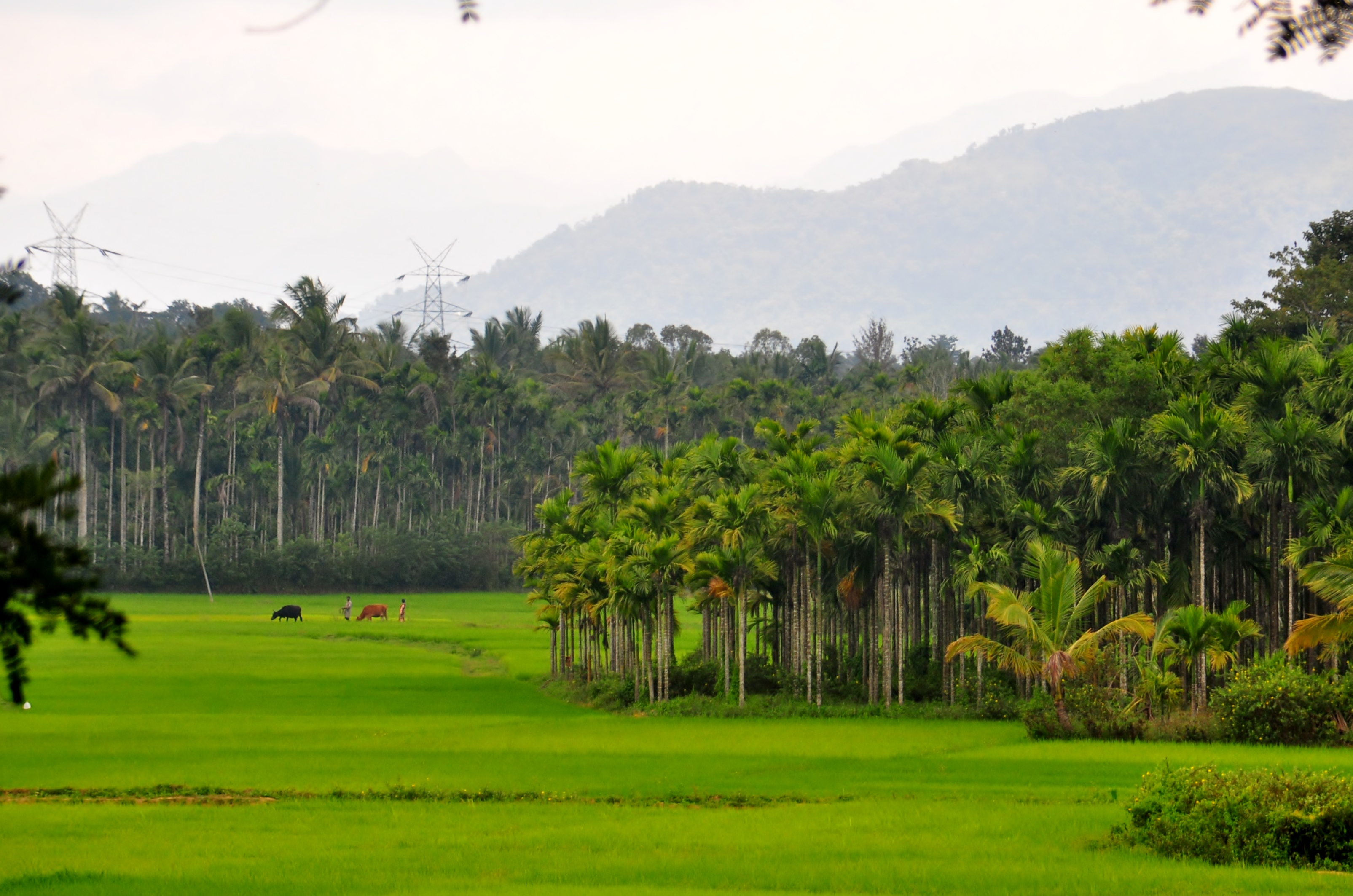 Beautiful landscape